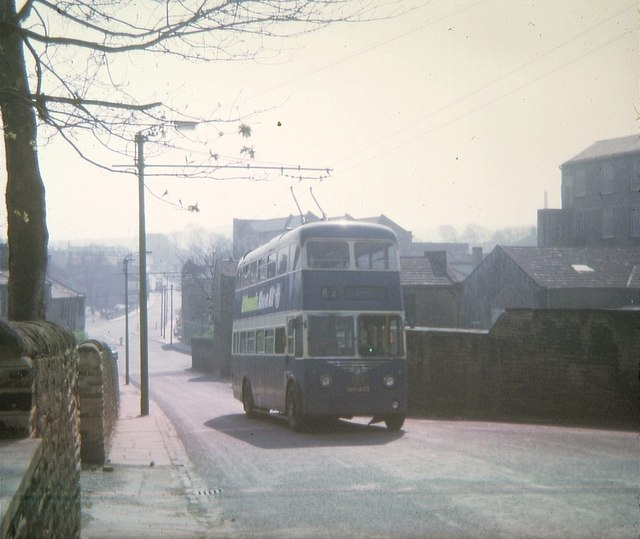 Bradford Trolleybus in Albion Road, Greengates